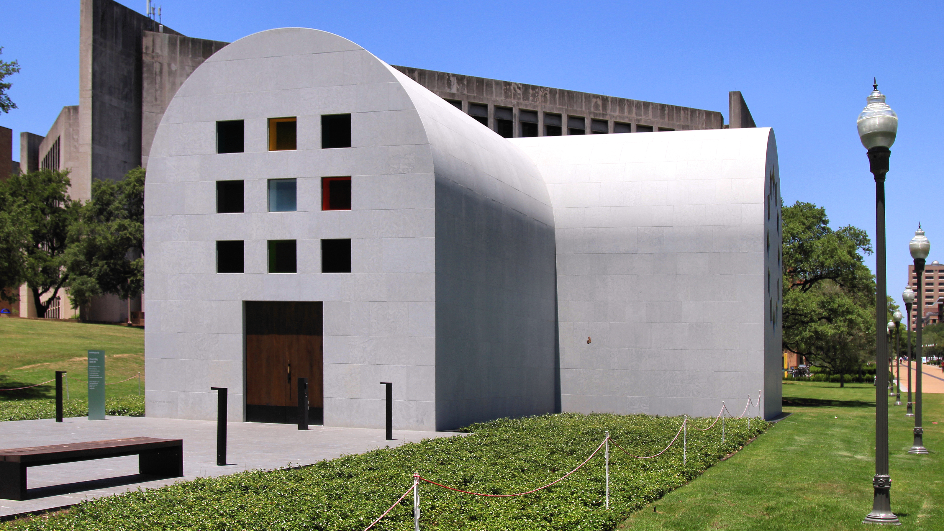 Austin (building) southeast corner